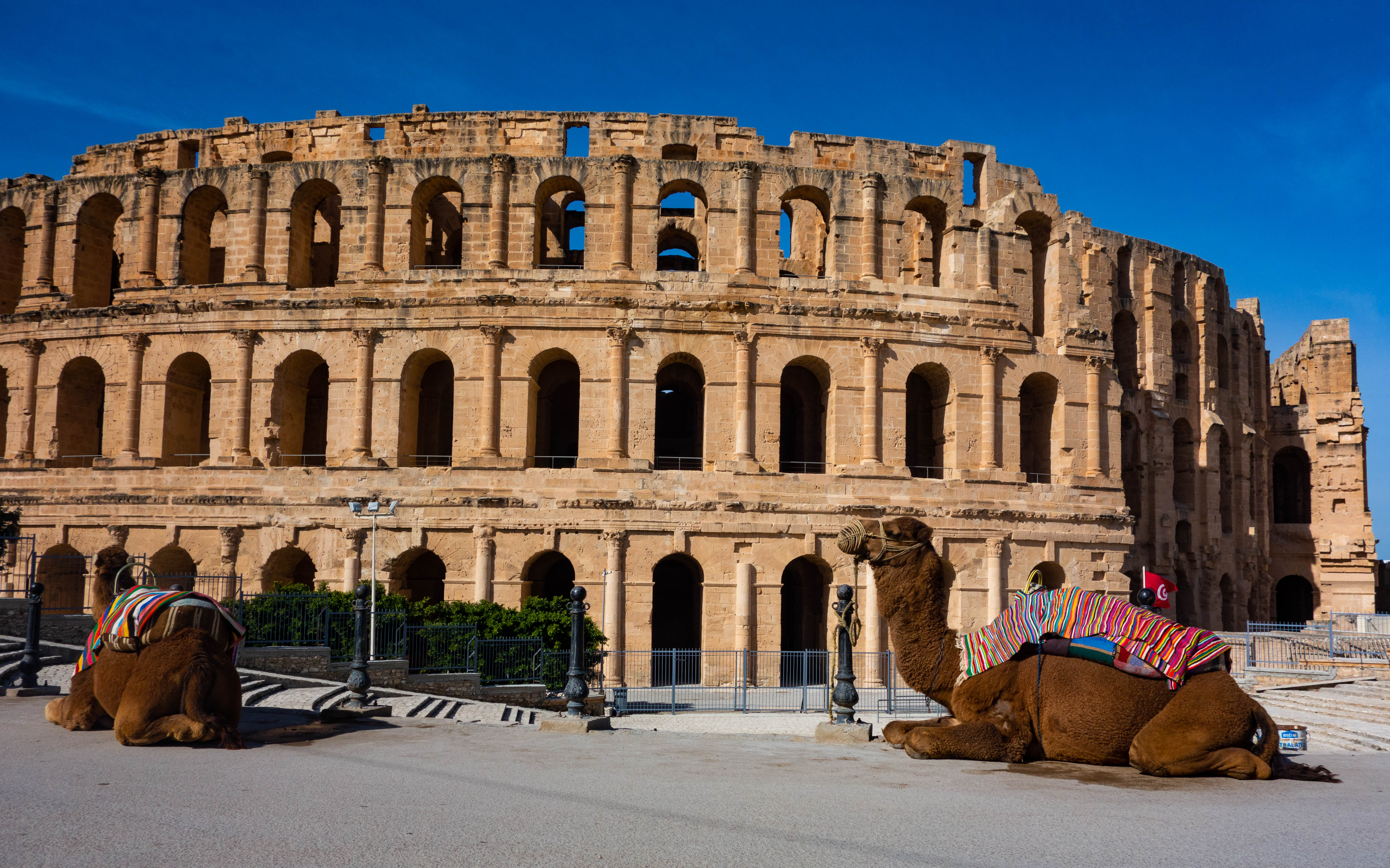 The beauty of life is to travel to places you love and want to return to it without being tired or bored This is an image with the theme "Africa on the Move or Transport" from: Tunisia